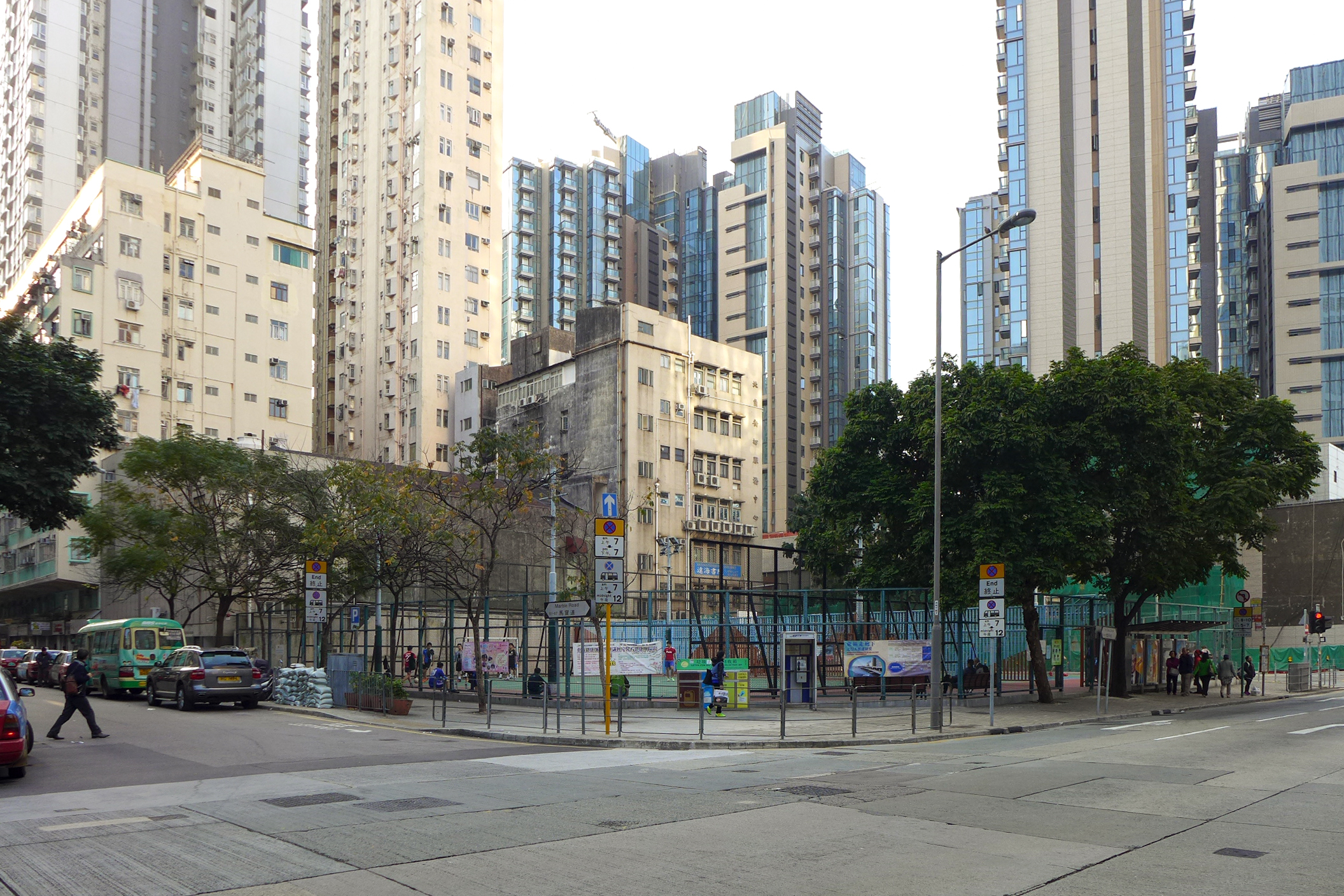 Tin Chui Street Playground